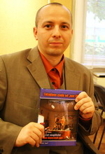 Tasi István (Īśvara-Kŗşņa dāsa), cultural anthropologist, Vaishnava theologian (ISKCON). Presenting his ideas about intelligent design.